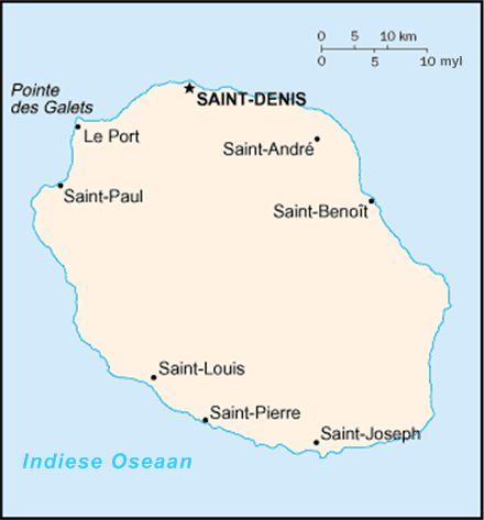 An Afrikaans map of Réunion.